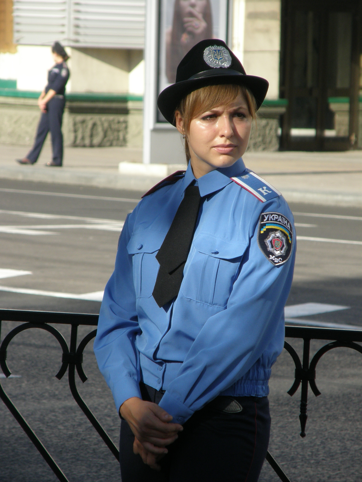 Carnival on the day of Donetsk, Ukrainian female police officer on duty